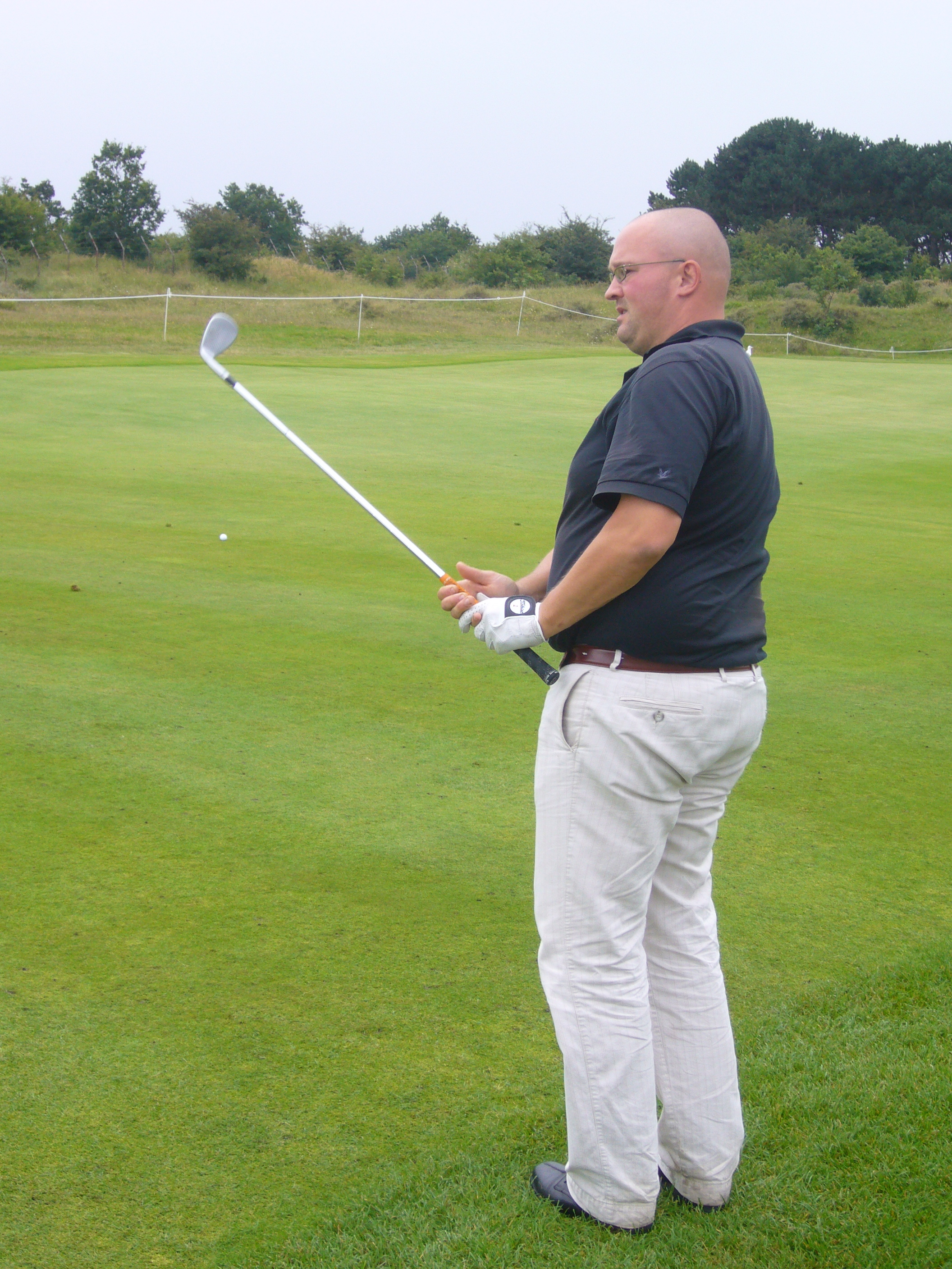 Ralph Miller, Dutch golfprofessional, at the KLM Open 2008 at Zandvoort, Kennemer Golf & Country Club